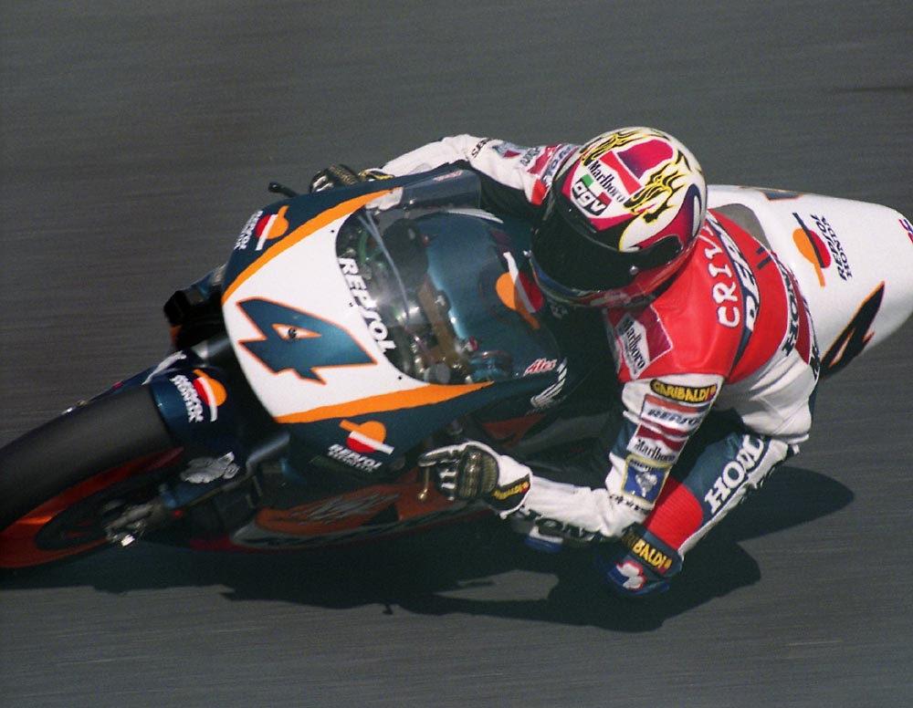 Alex Criville, in Japanese Grand Prix 1996